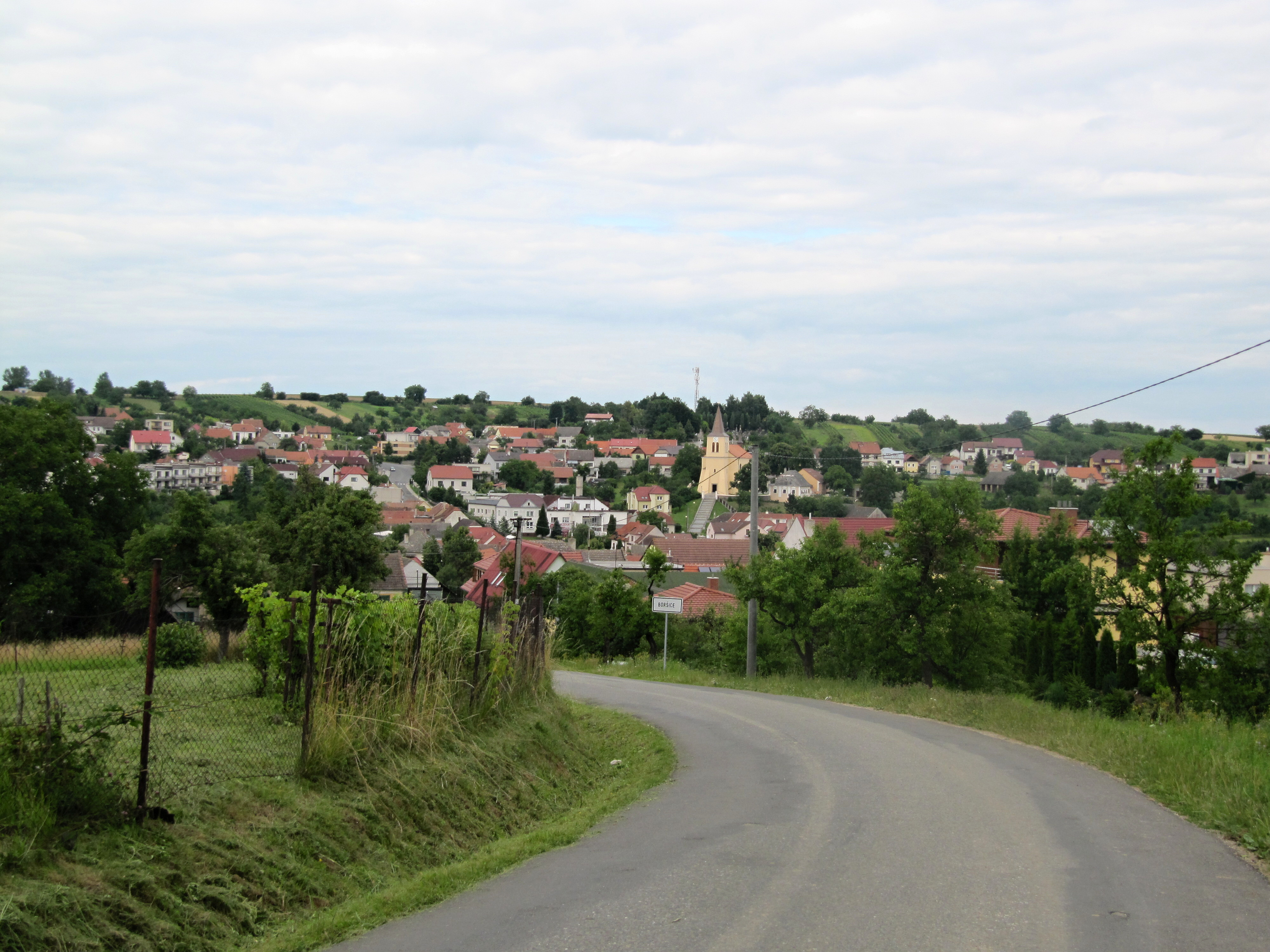 Boršice in Uherské Hradiště District, Czech Republic. General view of the arrival of Tučapy.